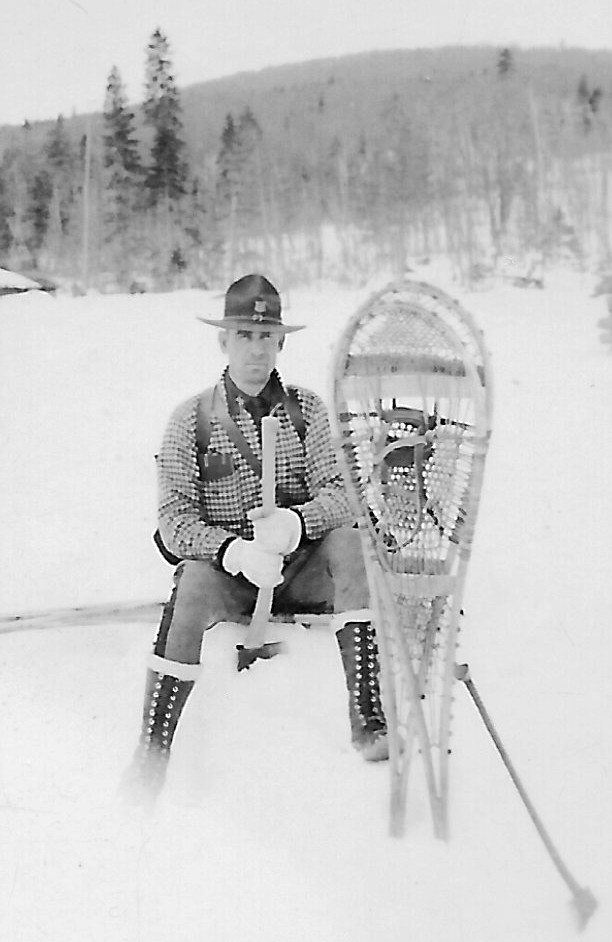 Maine Game Warden Dave Jackson on snowshoe patrol in Aroostook County, Maine